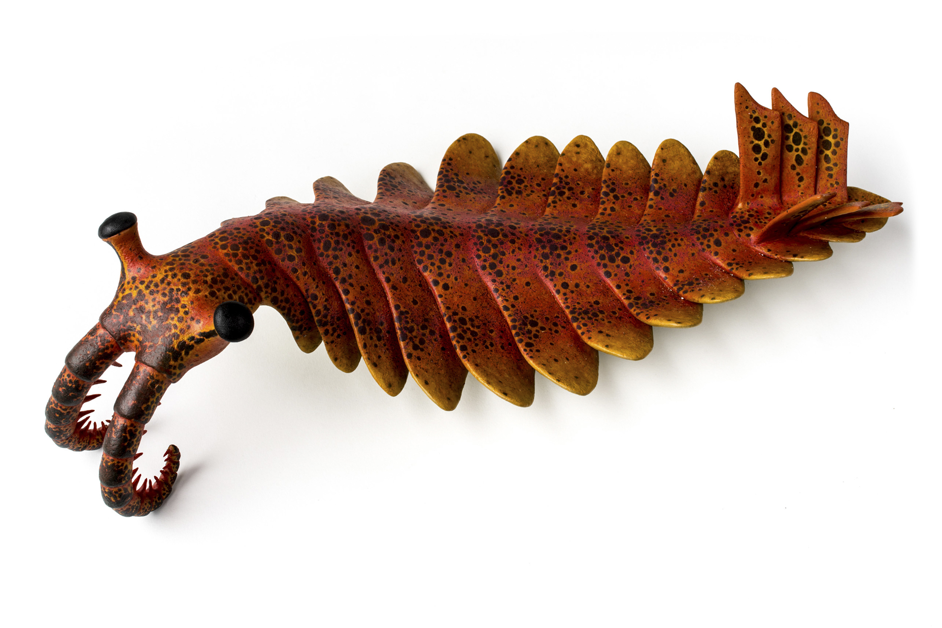 Anomalocaris canadensis - Reconstruction - 1:1 scale